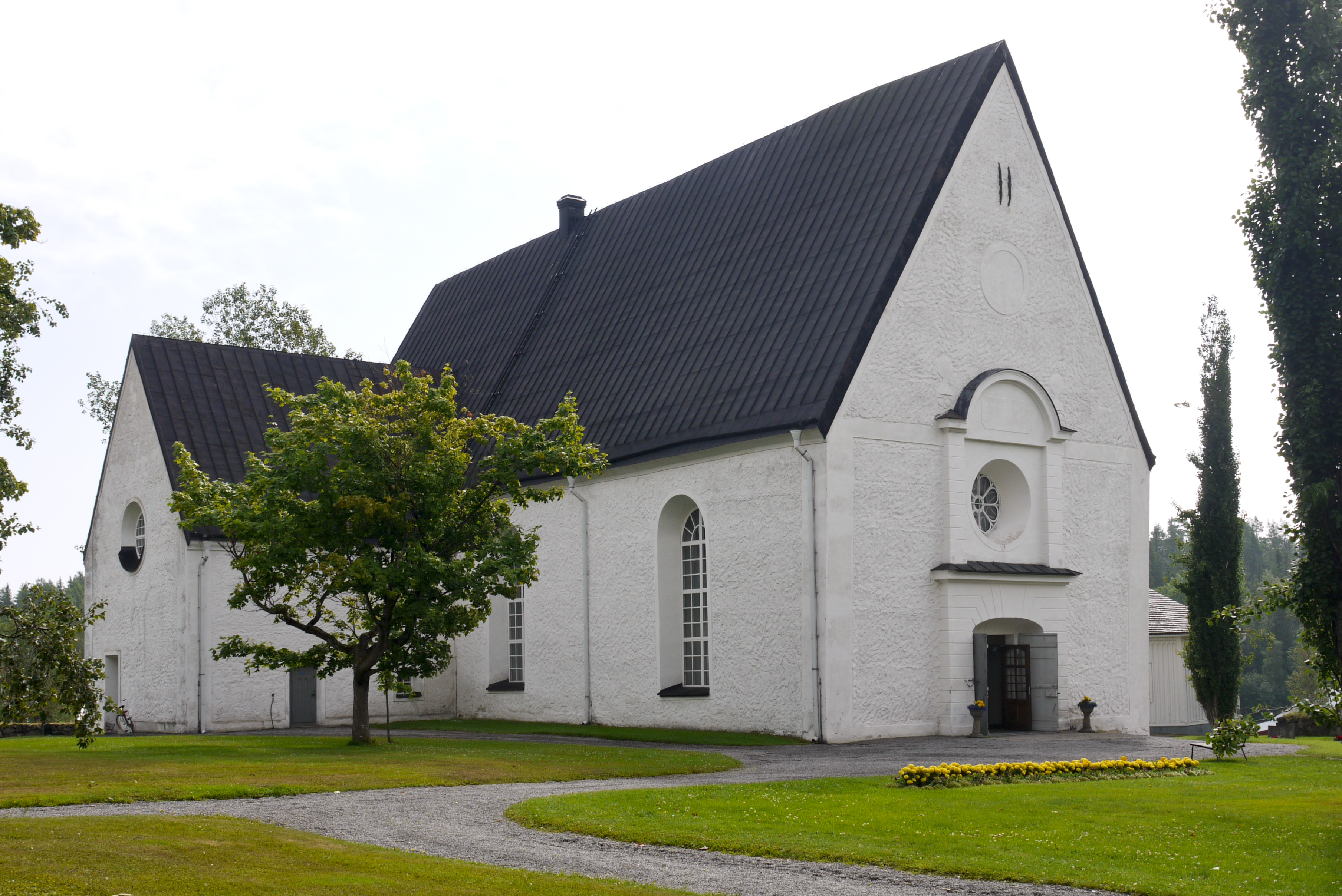 Lövånger kyrka, view. Skellefteå kommun, Sweden.